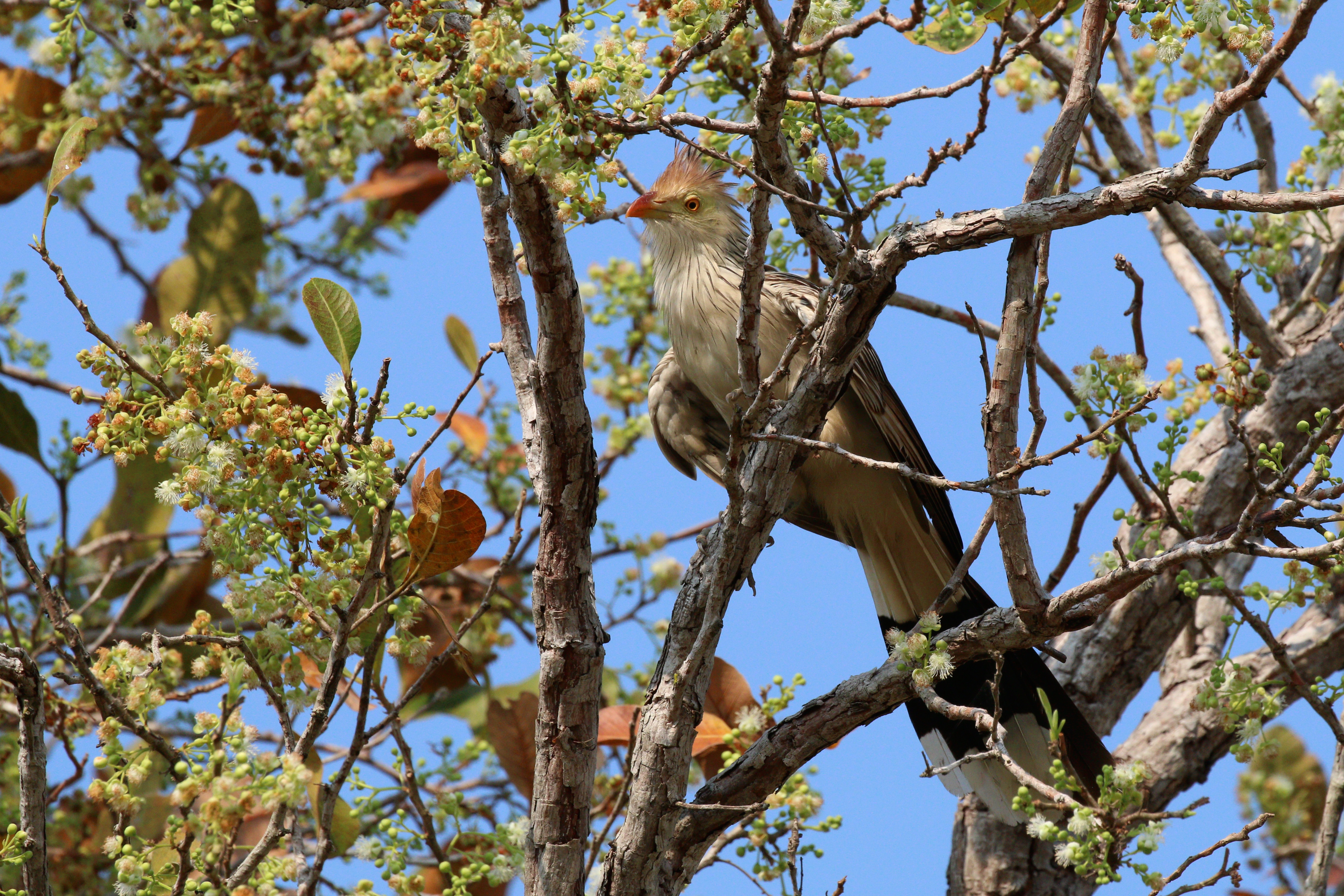 Guira cuckoo (Guira guira), the Pantanal, Brazil